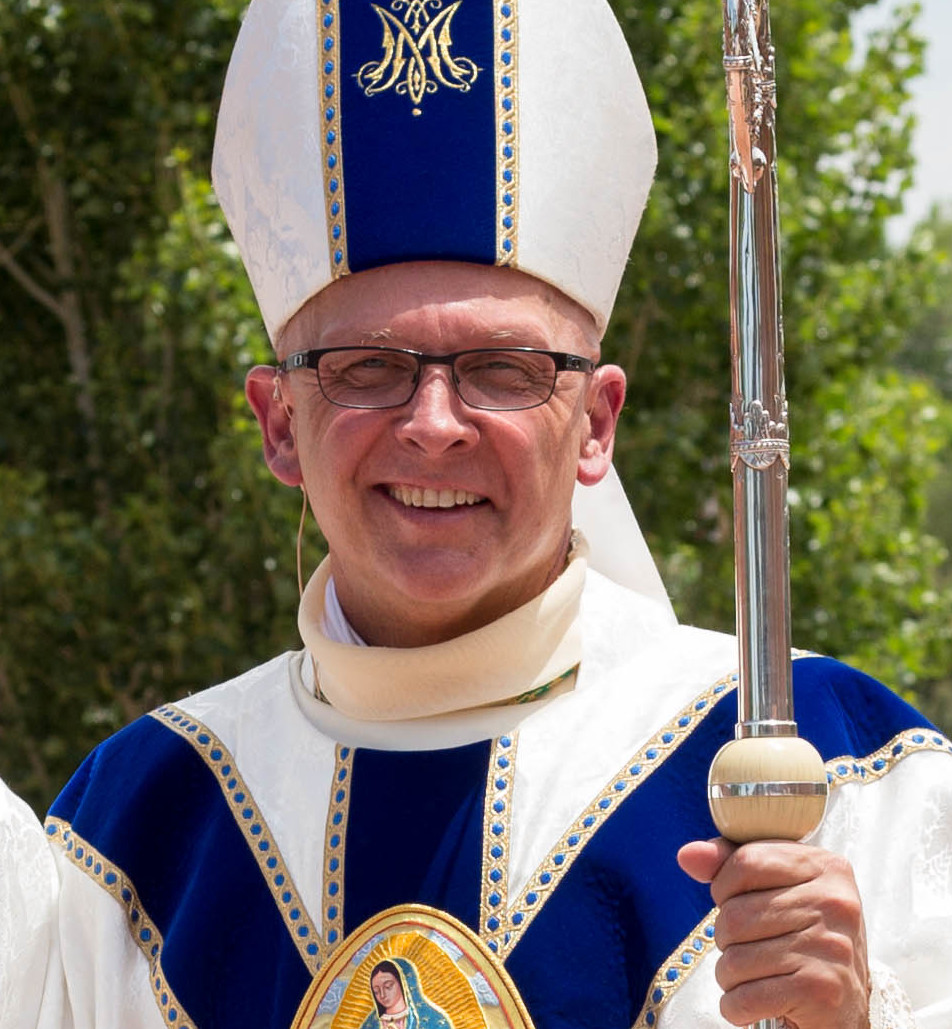 James S. Wall with newly ordained priest